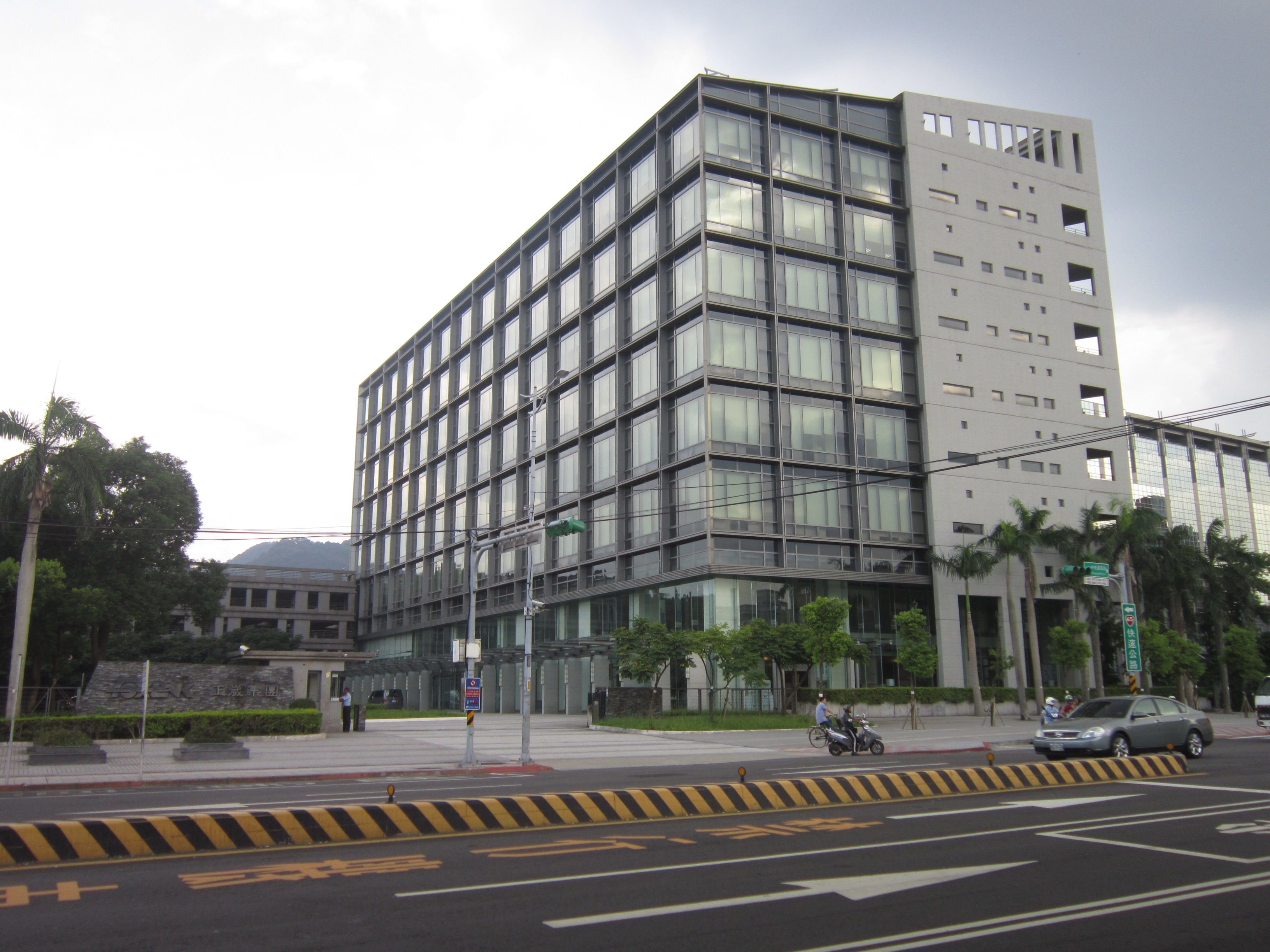 Foxlink_Tucheng_building